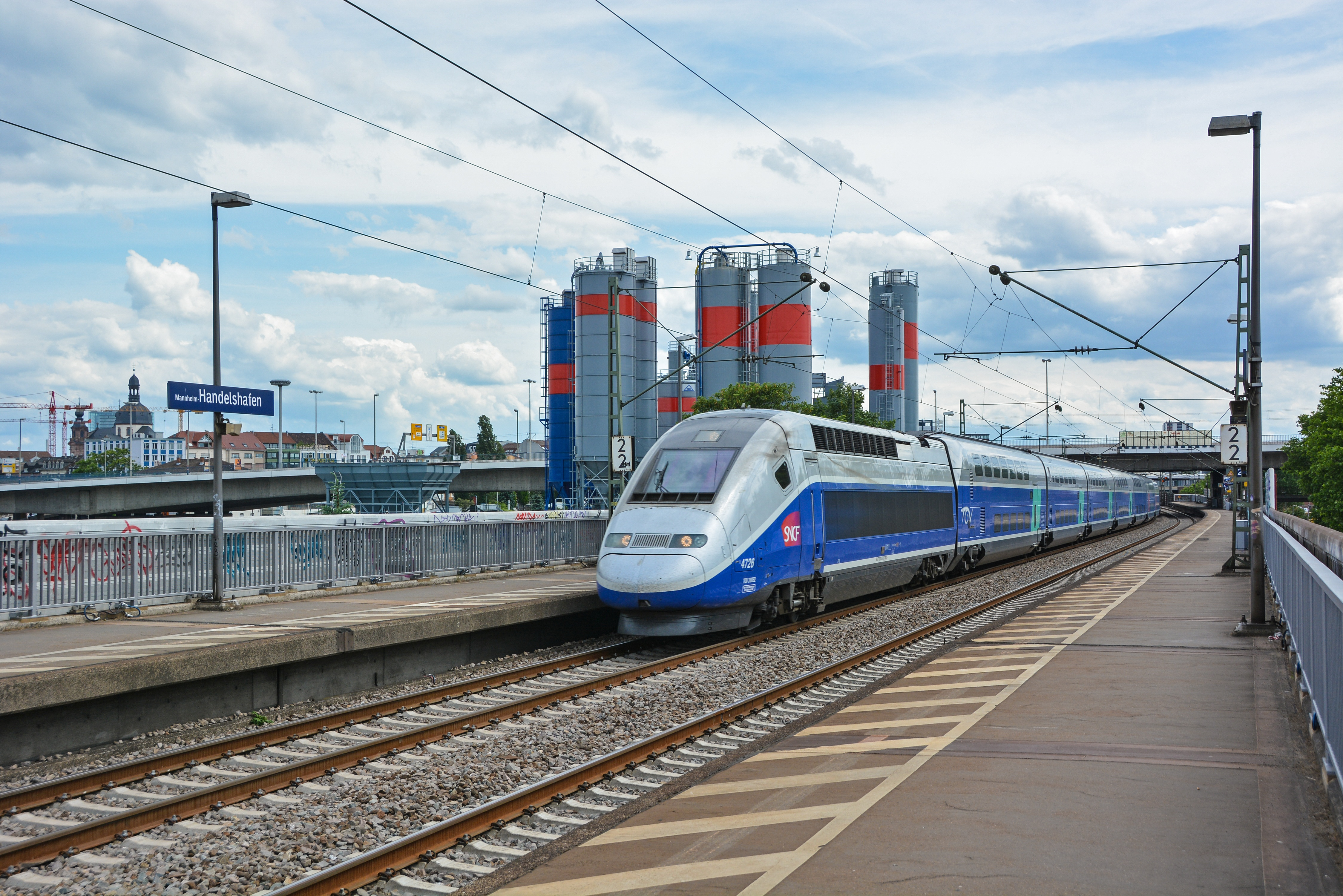 TGV Duplex passing station Mannheim-Handelshafen, Germany, direction Frankfurt